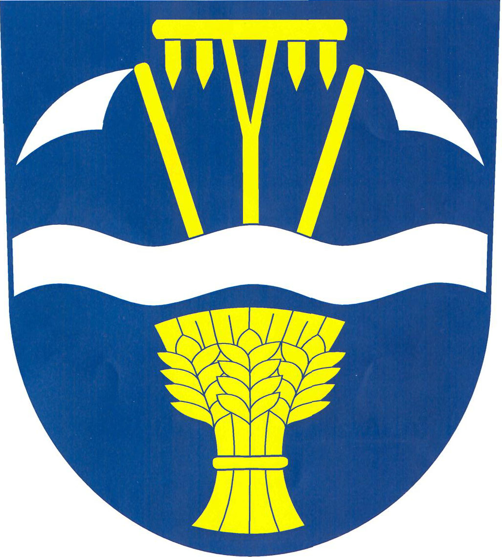 Municipal coat of arms of Kejžlice village, Pelhřimov District, Czech Republic.